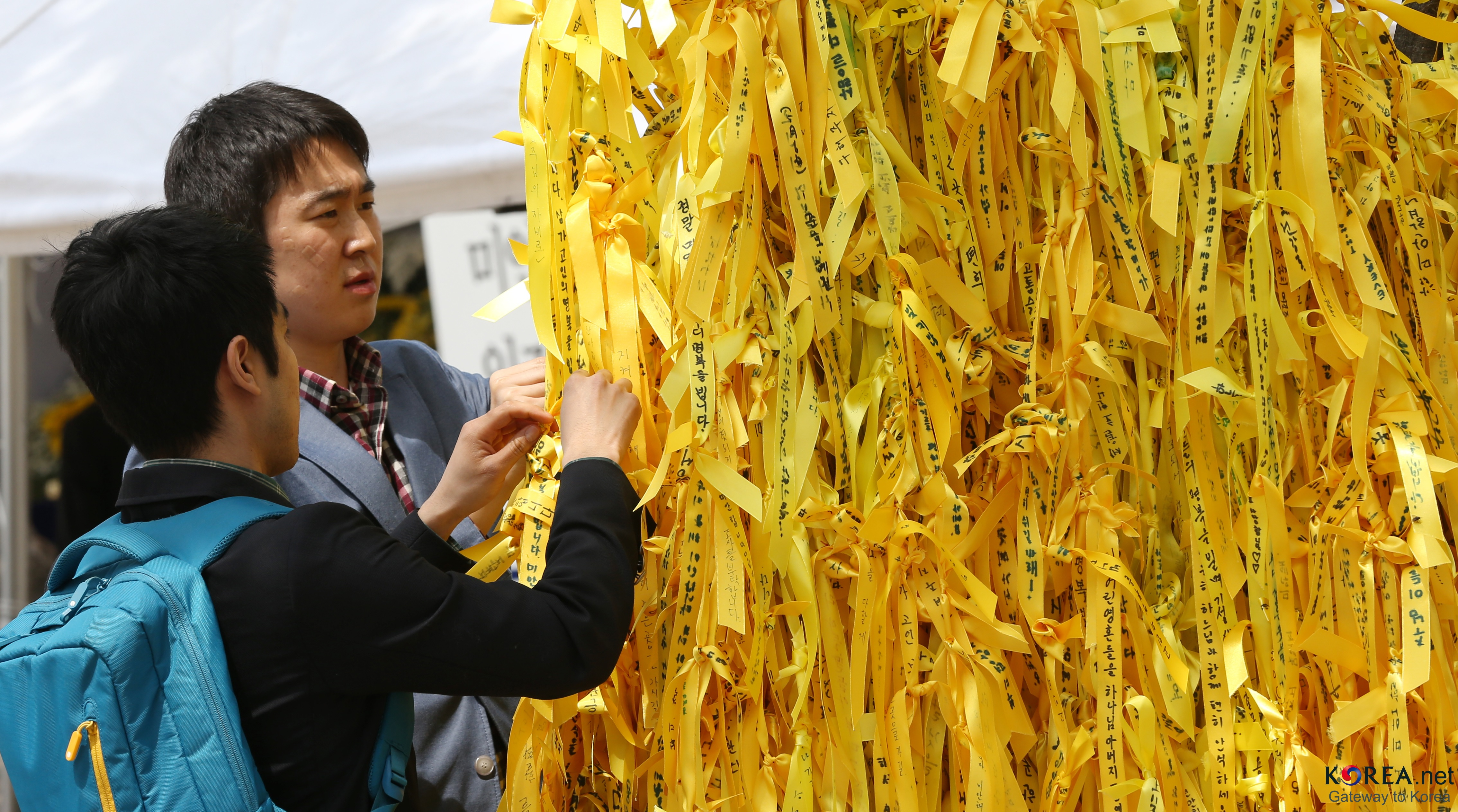 Two people with yellow ribbons, a symbol of sympathy for the victims of Sewol Sinking at Seoul Plaza in 2014.